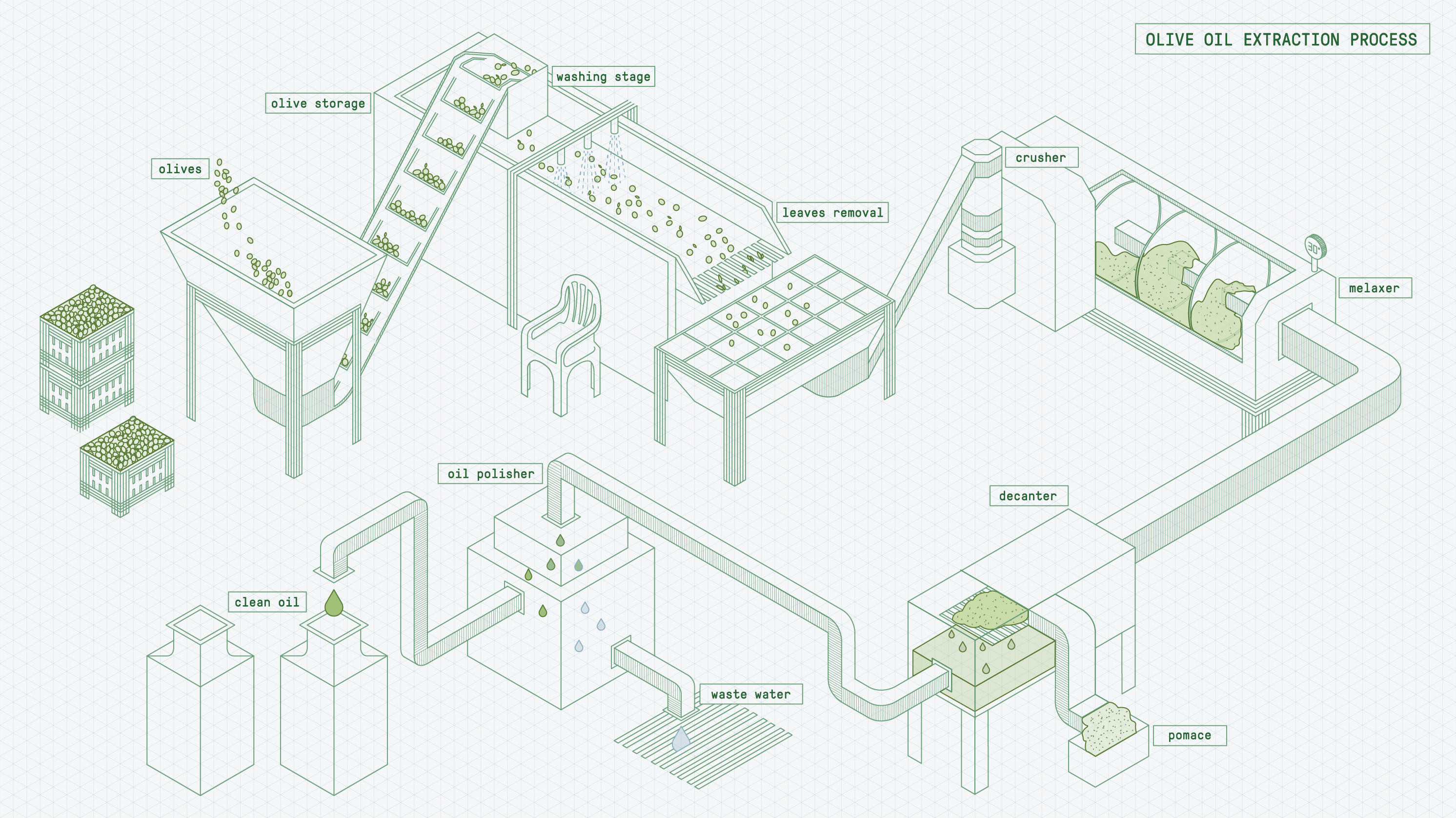 This image shows the modern method of olive oil extraction